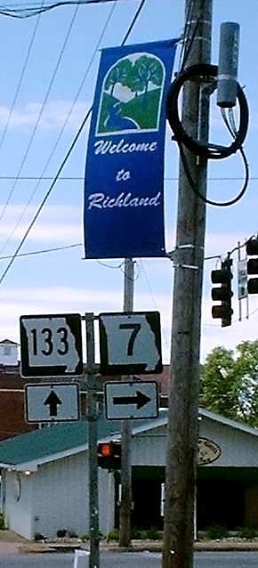 This is the intersection of Route 133 and Route 7 in Richland. The sign spells out "1337", a common spelling of leet. Many photoshops and fake images of an alleged Highway 1337 have been made, however this is real and easily verifiable by any map or atlas.